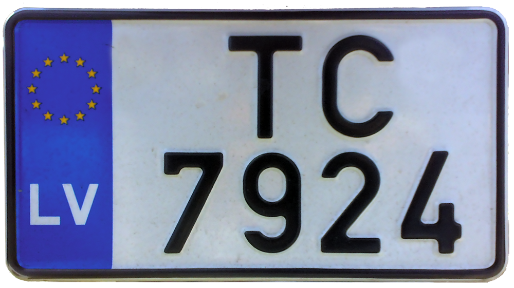 Motorcycle license plate.